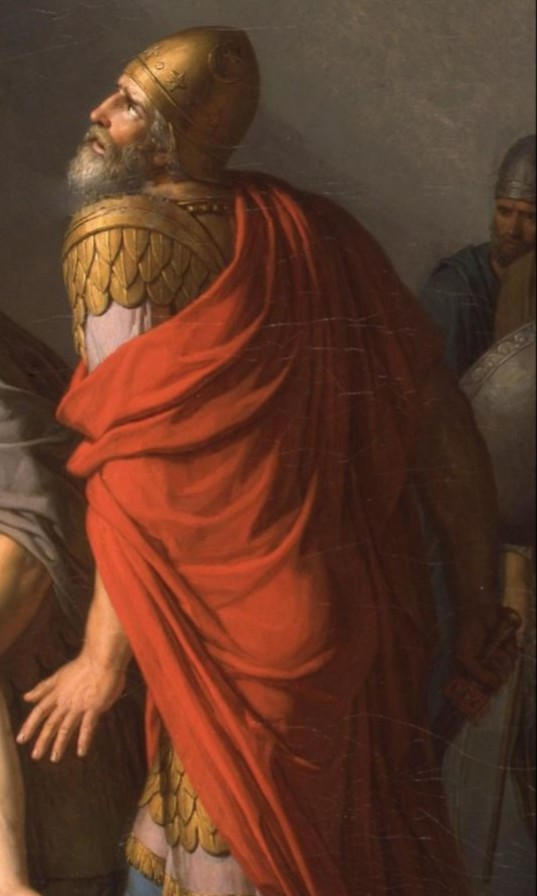 Pharasmanes I from "Rhadamistes and Zenobia" by TAILLASSON, JJ.